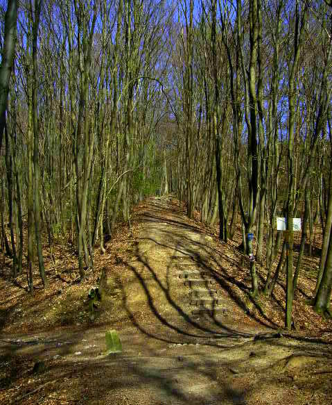 The celtic wall is located near the Weltenburg Abbey above the "Donaudurchbruch" (Danube gorge ?) and is part of a hiking trail called "Altmühltal-Panoramaweg" between Altessing and Kelheim.